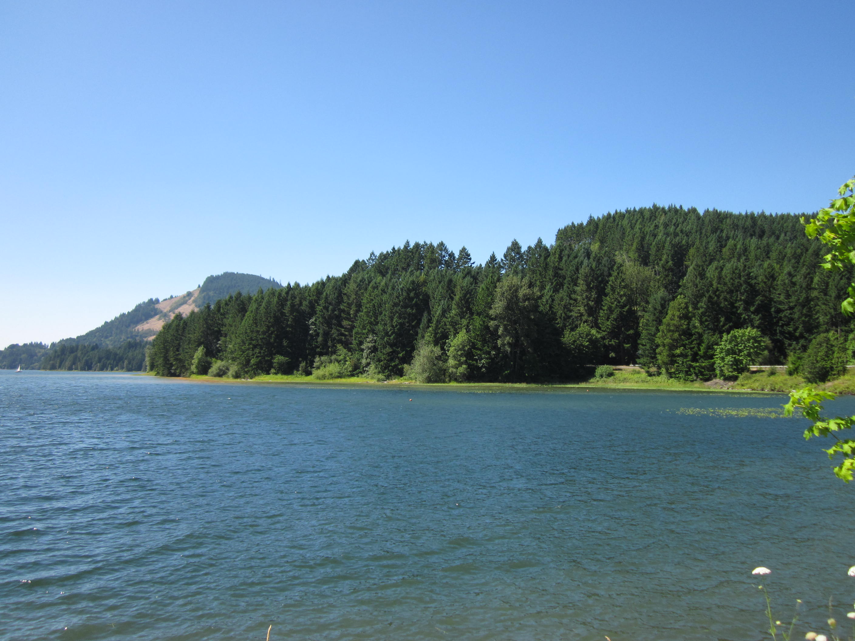 Dorena Reservoir, a reservoir created by a dam on the Row River near Cottage Grove in Lane County, Oregon